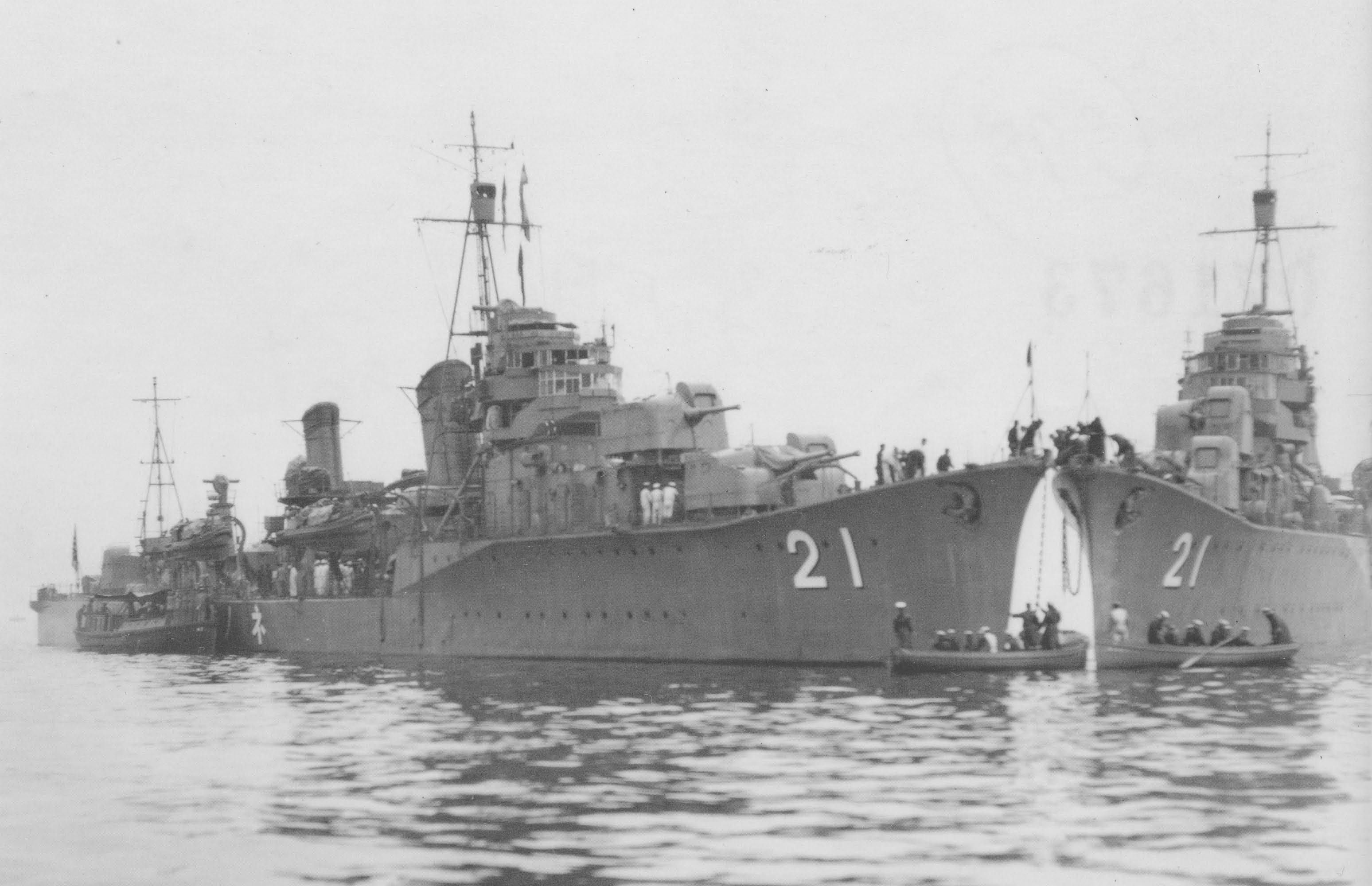 Imperial Japanese Navy destroyer Nenohi (left), the second Japanese warship to bear that name.